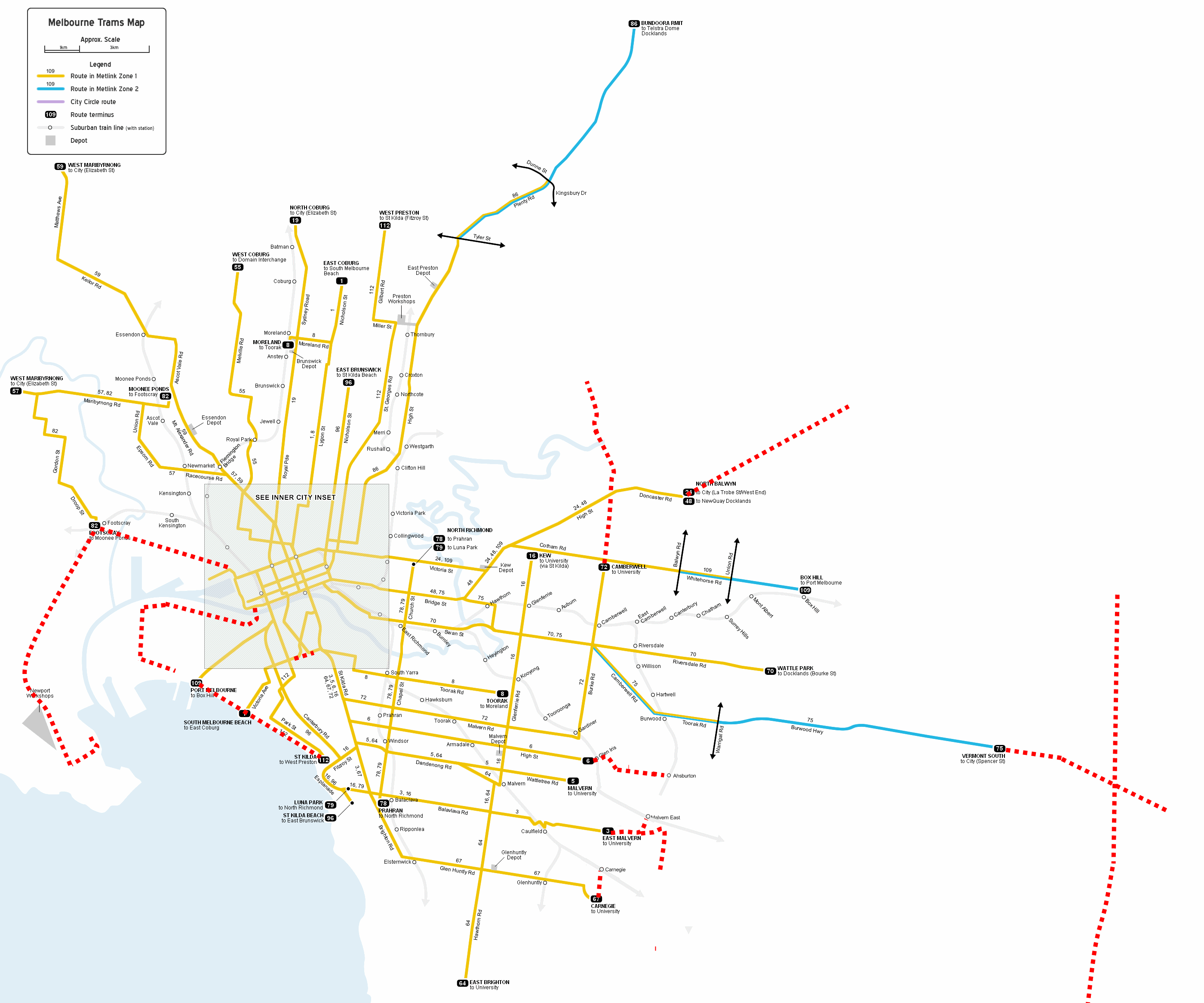 Map of proposed Melbourne tram extensions